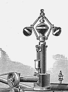 Loaded centrifugal governor (New Catechism of the Steam Engine, 1904).jpg